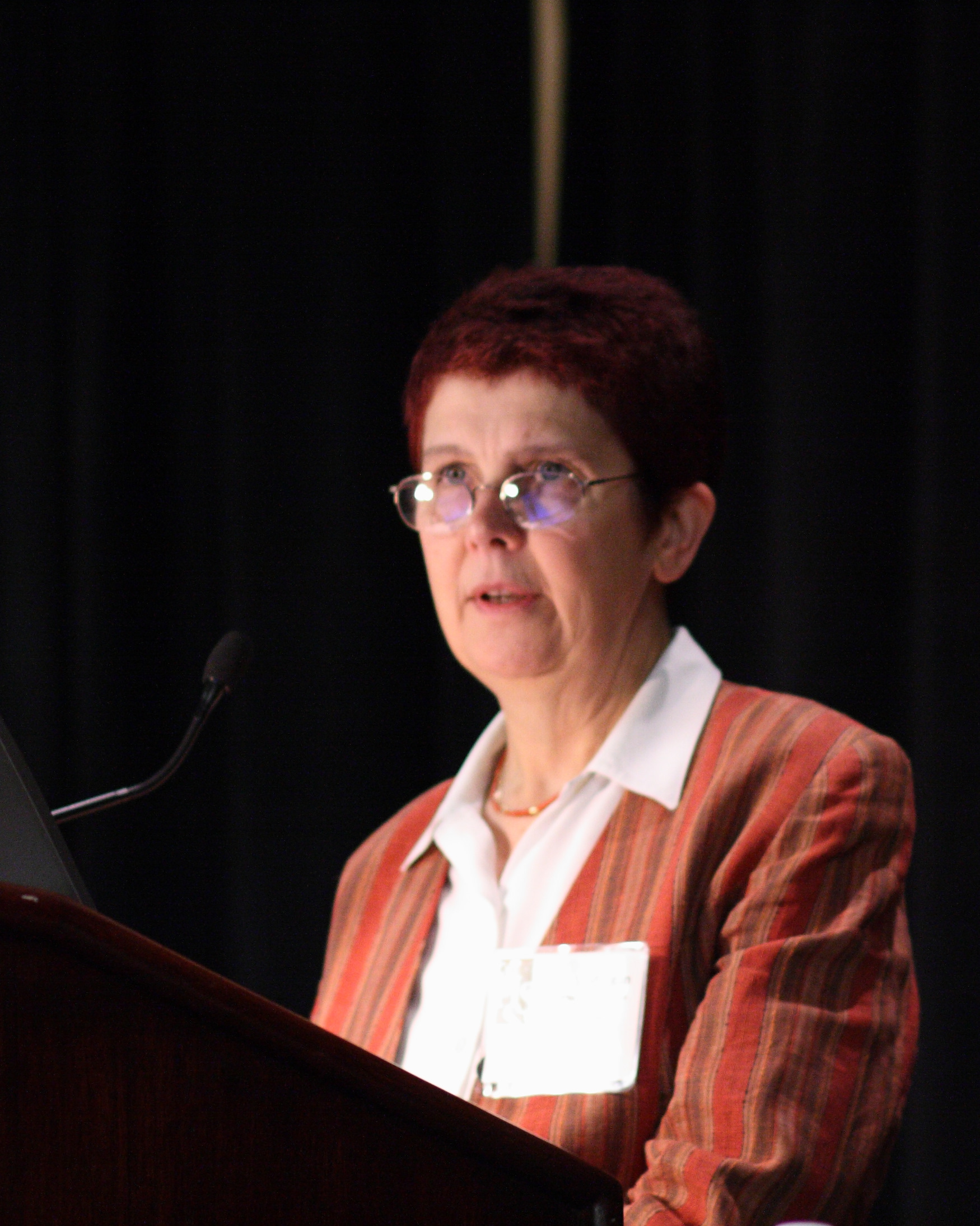 Historian of economics Mary S. Morgan at the 2009 meeting of the History of Science Society in Phoenix, Arizona, introducing the Distinguished Lecture by M. Norton Wise